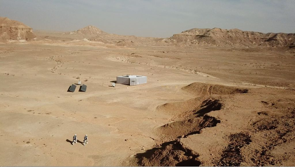 Drone footage of an EVA during the D-MARS analog mission in the Ramon Crater.